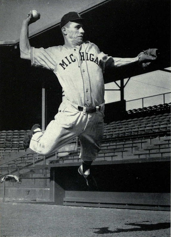 Photograph of Moby Benedict This work is in the public domain because it was published in the United States between 1924 and 1963 and although there may or may not have been a copyright notice, the copyright was not renewed. Unless its author has been dead for the required period, it is copyrighted in the countries or areas that do not apply the rule of the shorter term for US works, such as Canada (50 pma), Mainland China (50 pma, not Hong Kong or Macao), Germany (70 pma), Mexico (100 pma), Switzerland (70 pma), and other countries with individual treaties. See Commons:Hirtle chart for further explanation. This work is in the public domain in the United States because it was published in the United States between 1924 and 1977 without a copyright notice. See Commons:Hirtle chart for further explanation. Note that it may still be copyrighted in jurisdictions that do not apply the rule of the shorter term for US works (depending on the date of the author's death), such as Canada (50 p.m.a.), Mainland China (50 p.m.a., not Hong Kong or Macao), Germany (70 p.m.a.), Mexico (100 p.m.a.), Switzerland (70 p.m.a.), and other countries with individual treaties.